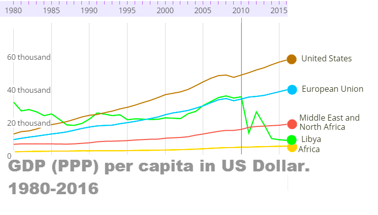 GDP (PPP) per capita 1980-2016, IMF World Economic Outlook Database, April 2017